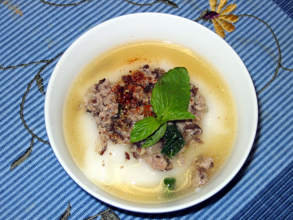 A bowl of northern Vietnamese-style bánh đúc called bánh đúc thịt (bánh đúc with meat). It is made from bánh đúc, a type of soft dumpling made from rice flour, and ground pork. The yellowish liquid is fish sauce that is used to flavor the pork, and the dish is garnished with a sprig of mint. This dish is served as a variety of quÃ váº·t, or snack, and is best served hot, in the late afternoon. Photo taken with a Canon PowerShot S400 digital camera.